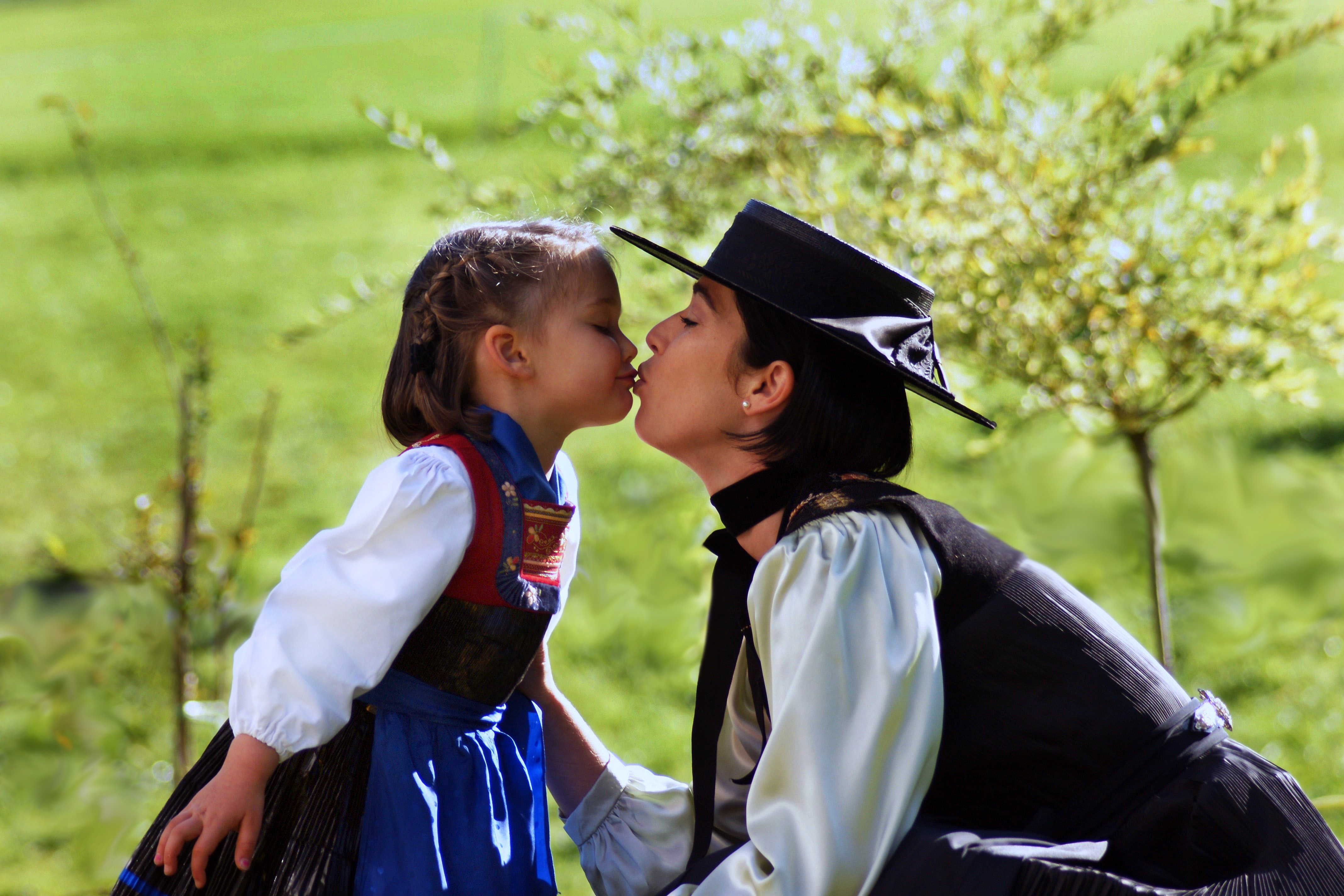 The characteristics of the female costume Bregenzerwald are: the silver buckle, the "Bleotz" chest part, which is elaborately embroidered with gold silver is in the "Keadoro", an elaborately embroidered gold silver decorative stripes on the back and the different hats. They are a very special trademark of Bregenzerwald costume. "Spitz cover (for the church)," "Brämokappo (Pelzkappe seal)", "Stuoz", "Stucho (white Haartuch for the funeral)", "Schäohut (straw hat, summer)", "Businessman Hat (felt, for the transitional period) "and the masterpiece" Schappale (costumes called crown)."